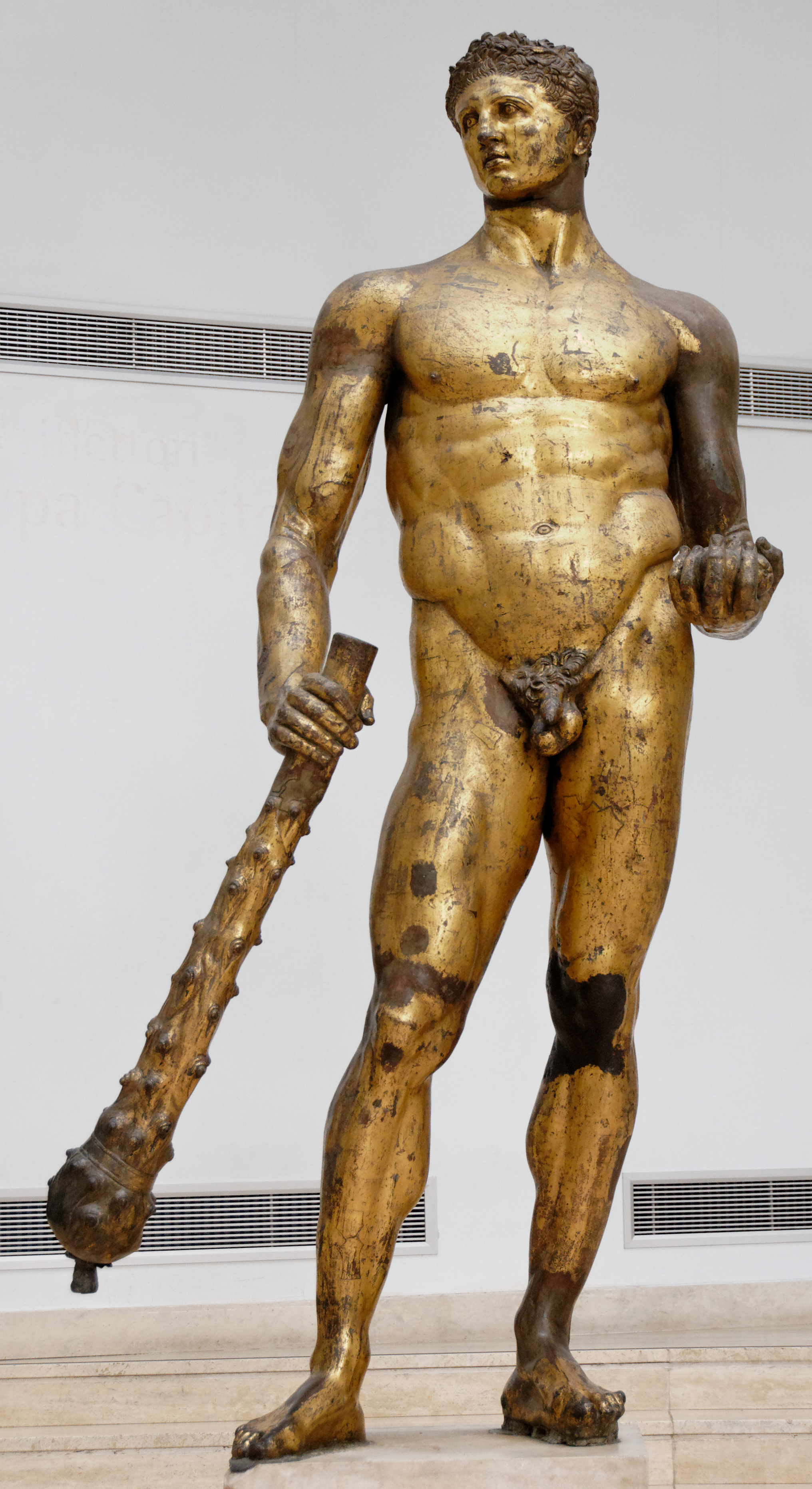 Statue of Hercules holding his club and an apple of the Hesperides. Roman artwork of the Republican era.